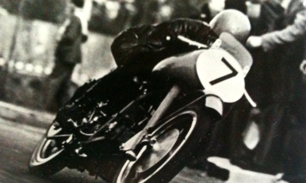 Enrico Lorenzetti driving Moto Guzzi 250 c.c.